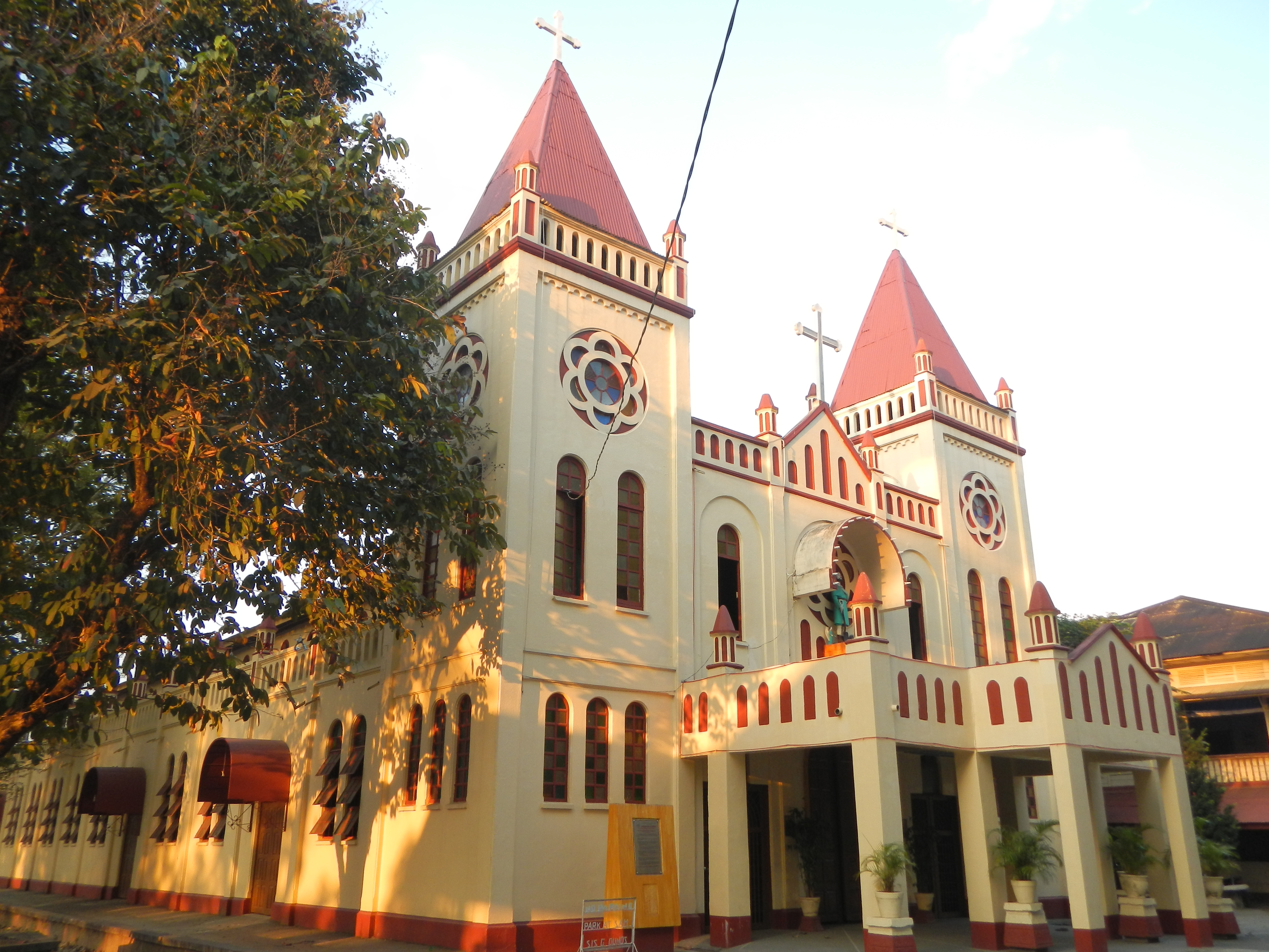 (F- 1894) St. Isidore the Farmer Parish Church Tubao, 2509 La Union Titular: St. Isidore the Farmer, May 15 Parish Priest: Fr. Joel Angelo Licos[1] Vicariate of St. Francis Xavier Vicar Forane: Fr. Joel Angelo Licos Roman Catholic Diocese of San Fernando La Union Tubao, La Union[2]